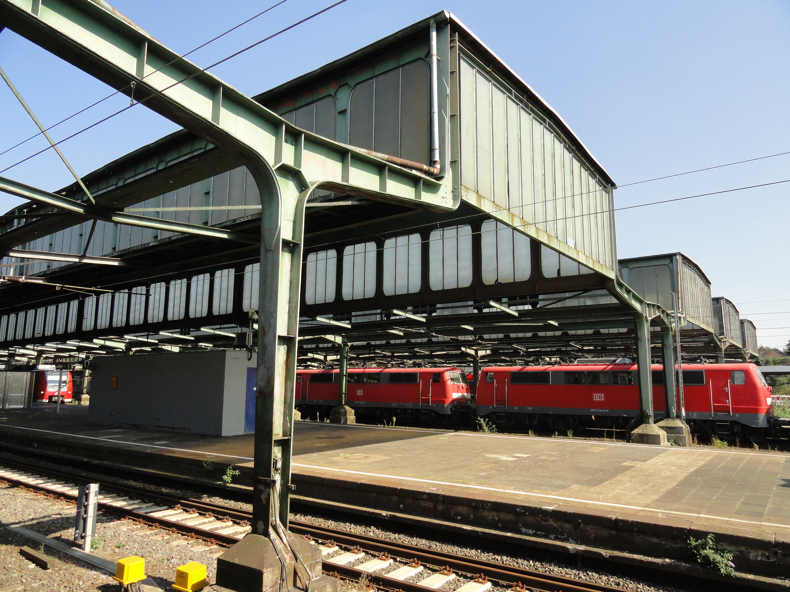 View of the historic, free-floating platform canopies (built from 1931-34, with recourse to Roman/early Christian basilicas with clerestory windows) from south-west.